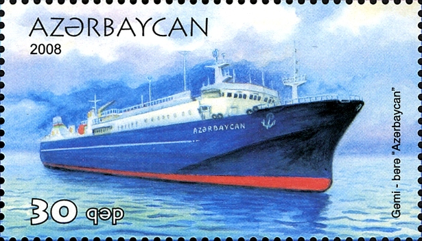 150th Anniversary of the Caspian Shipping Company - "Azerbaijan"